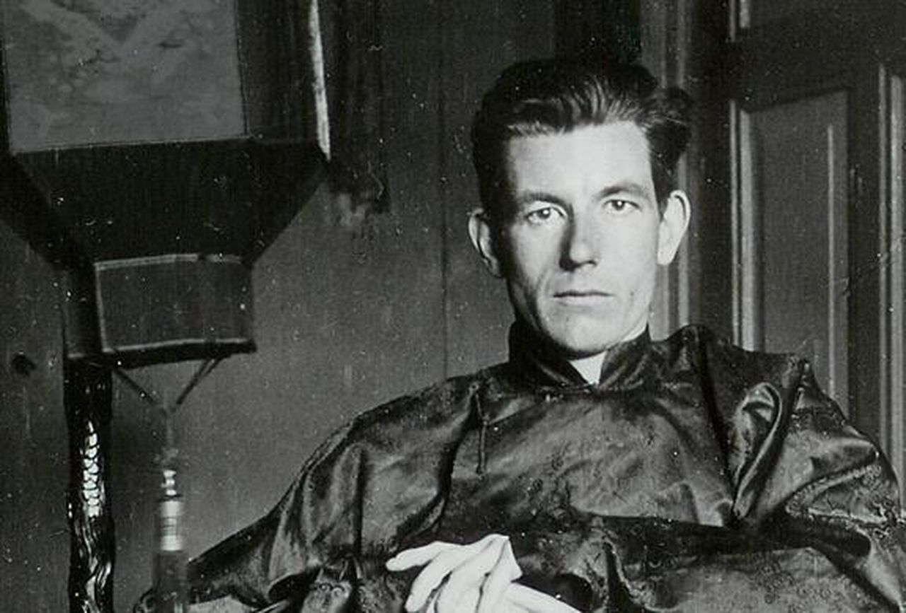 Jan Jacob Slauerhoff (1898-1936) in Chinese clothes, shortly after Dec. 1927